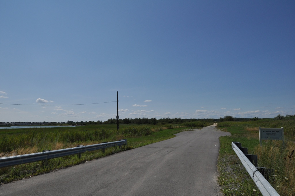 Rumney Marsh Reservation, Saugus, MA